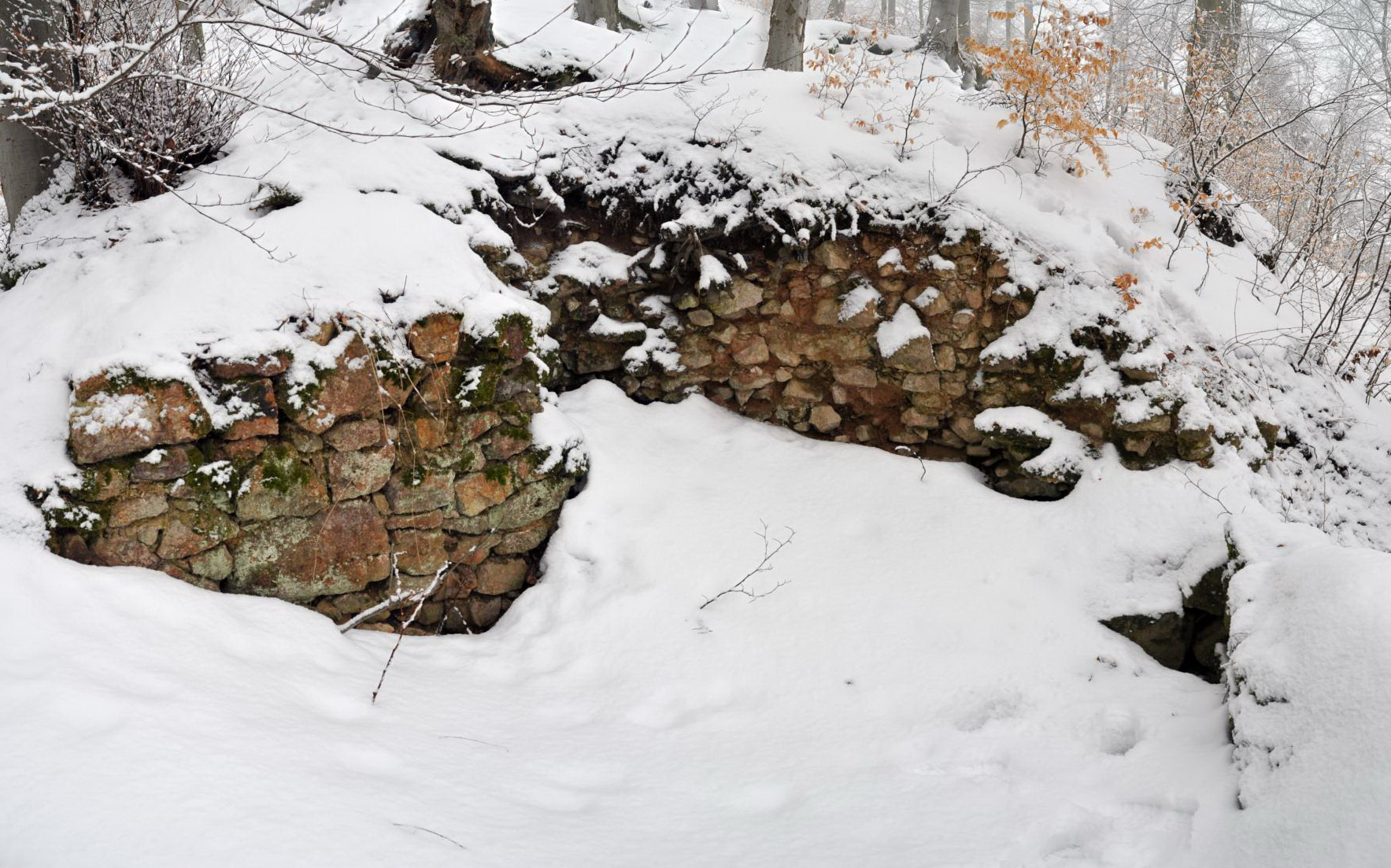 Remains of a tower of the Castle Tannenstein near Dannenfels in Rhineland-Palatinate.